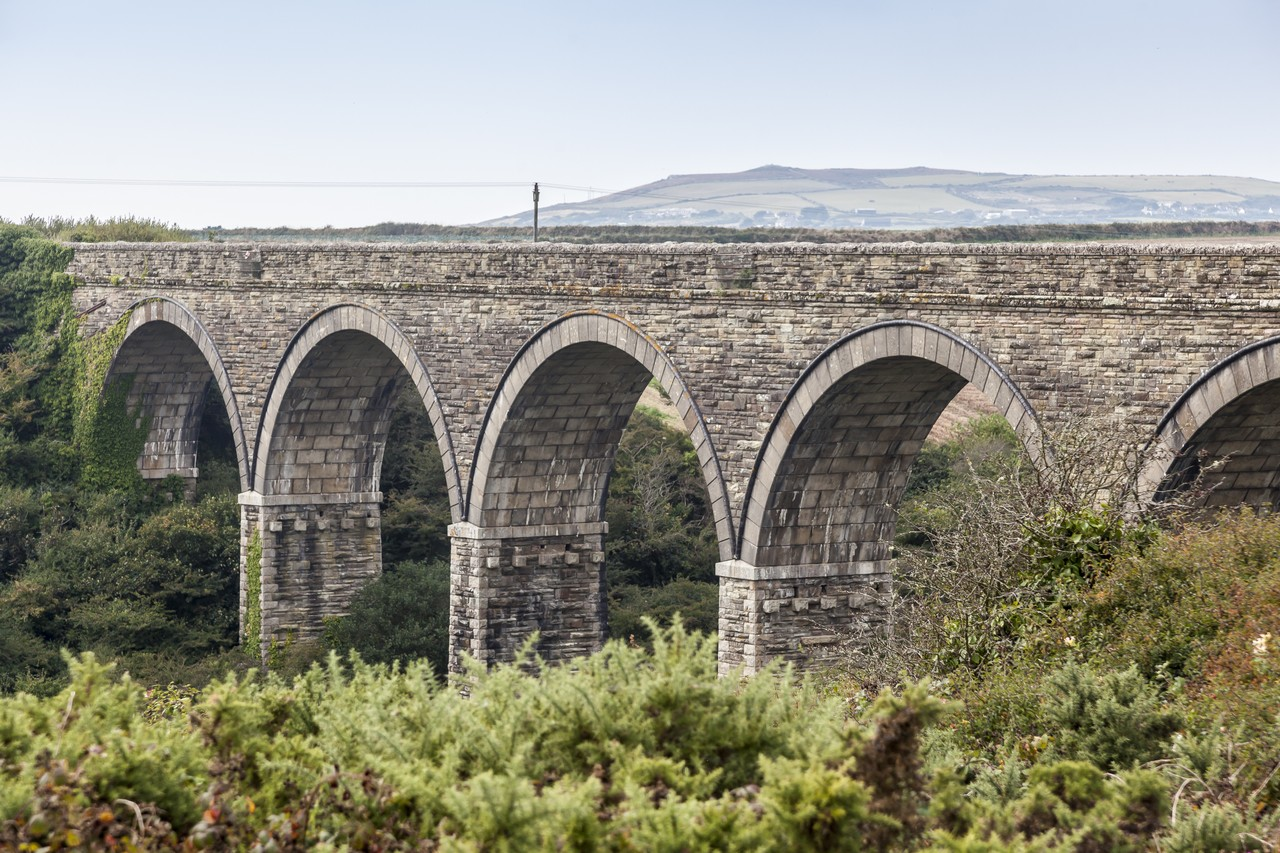 Wheal Liberty viaduct